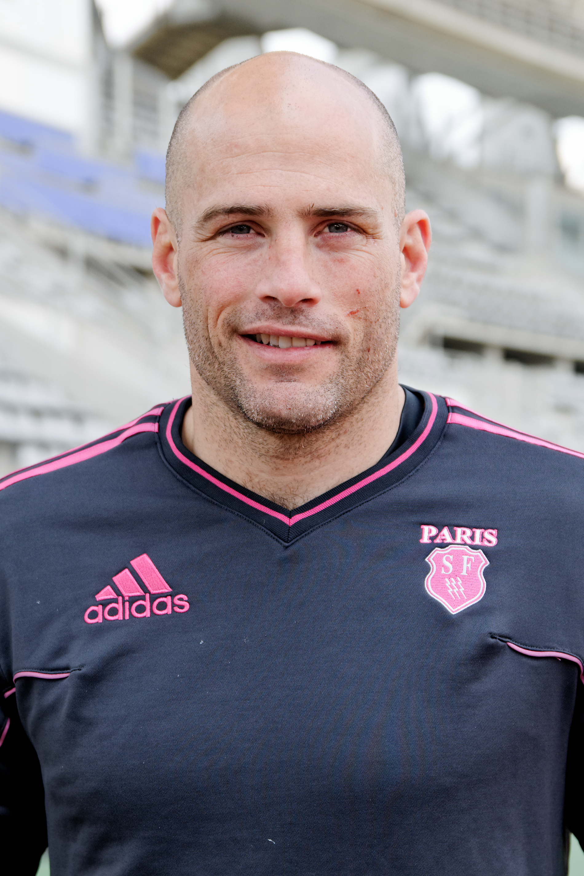 Felipe Contepomi during the Stade Français training session held at Stade Charléty, Paris on 3 April 2012.